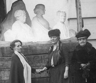 Sculptress Adelaide Johnson (left) in front of her memorial to women's suffrage at its erection in Washington DC, 1921